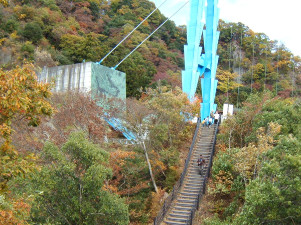 Ryujin bridge stairway. Hitachiōta, Ibaraki, Japan.